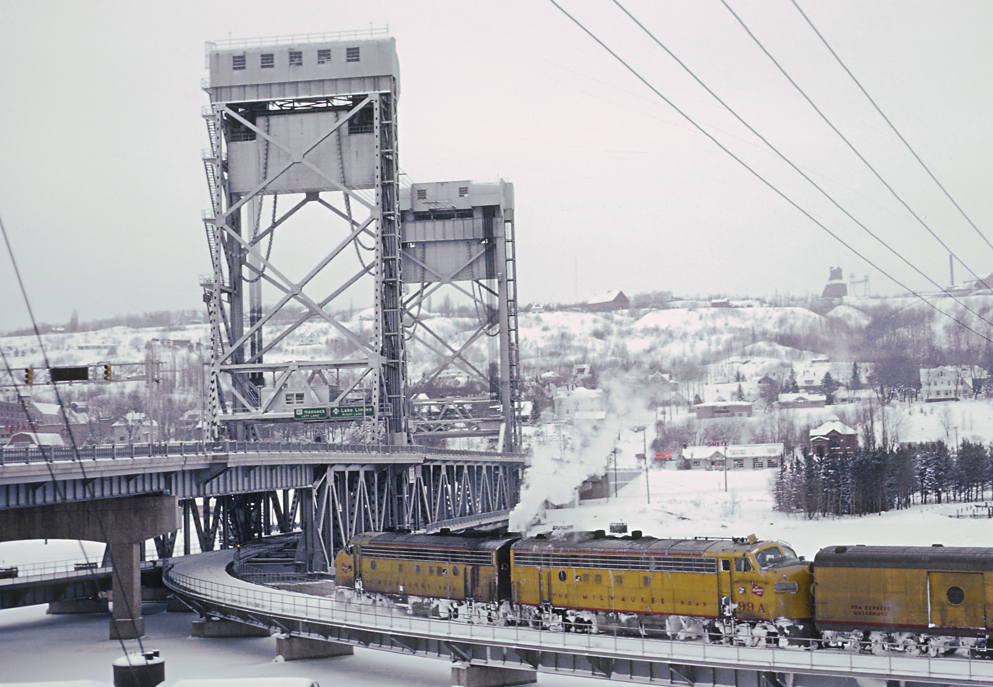 A few days ago I showed you the middle photo of this three-photo sequence. I just found the other two. So here is the full sequence. The Copper Country Limited was a Milwaukee Road Train which ran on the SOO Line at its outer end. The train was all Milwaukee Road equipment. Roger Puta's sequence is of the train as of SOO Line Train 7 entering the rail-highway bridge between Hancock and Houghton, Mich. on January 8, 1967.